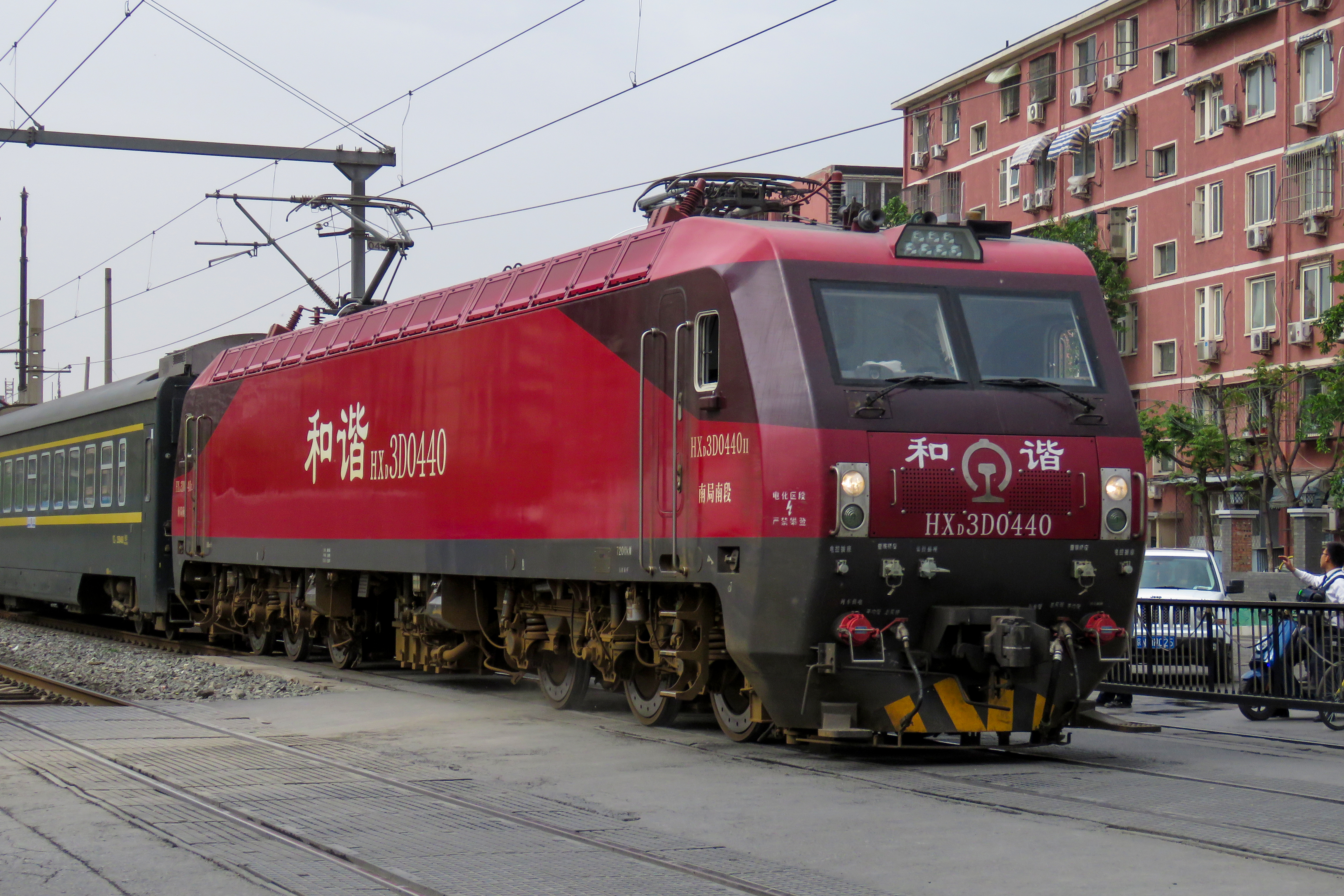 Z59 to Fuzhou.